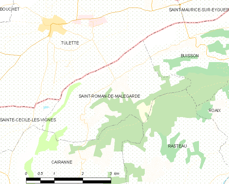 Map of French municipality Saint-Roman-de-Malegarde